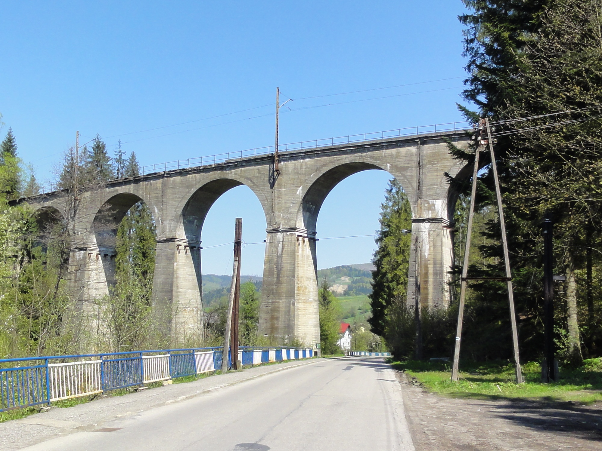 Railway bridge in Wisła.